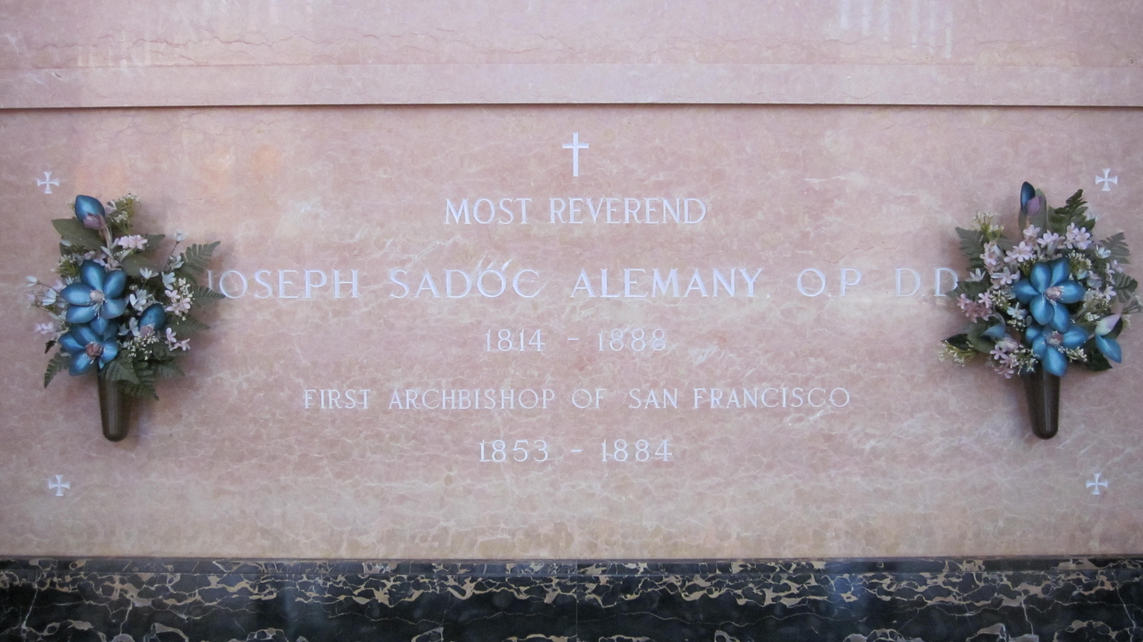 The vault of Archbishop Joseph Alemany in the Holy Cross Mausoleum at Holy Cross Cemetery in Colma, California.